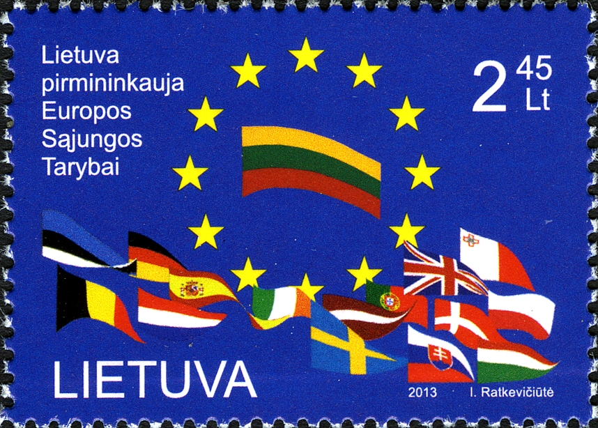 The stamp is dedicated to Lithuania's presidency of the European Union. There are flags of EU countries on the stamp. Post of Lithuania 2013.